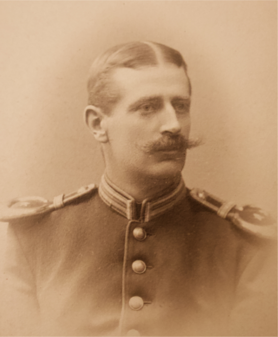 Portrait